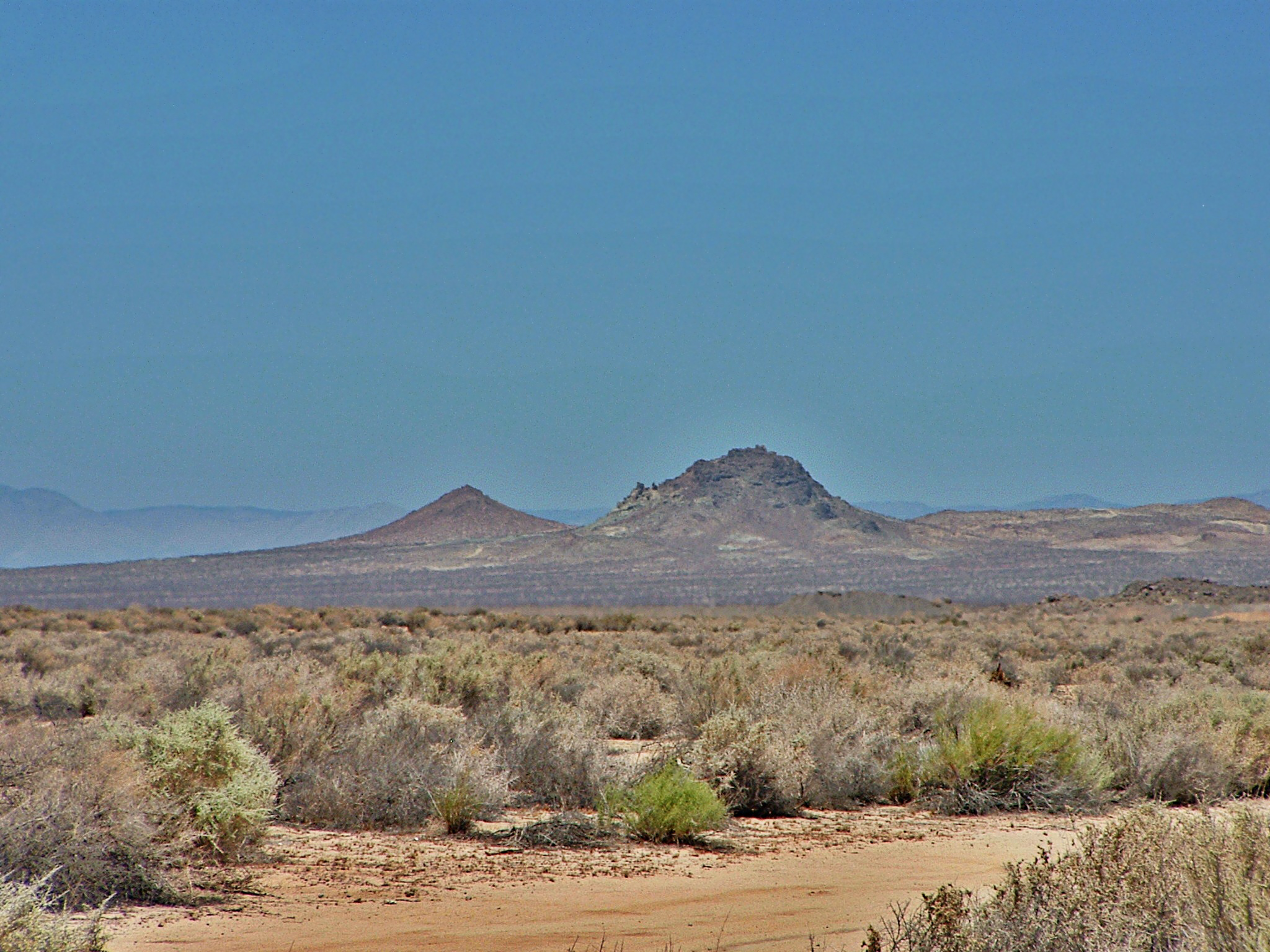 This photo was taken from the corner of Lamel St. and Glendower Ave in North Edwards CA. Other information The original file was .jpg format. It was converted to .png format on July 7th, 2012 for upload to Wikipedia. The conversion process was done in GIMP 2.8.0-RC1 on a Windows 7 machine.